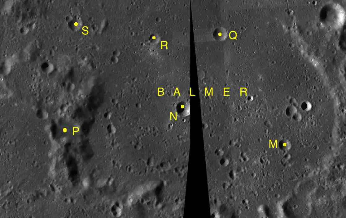 Parts of the charts LAC-98, LAC-99 used for the presentation